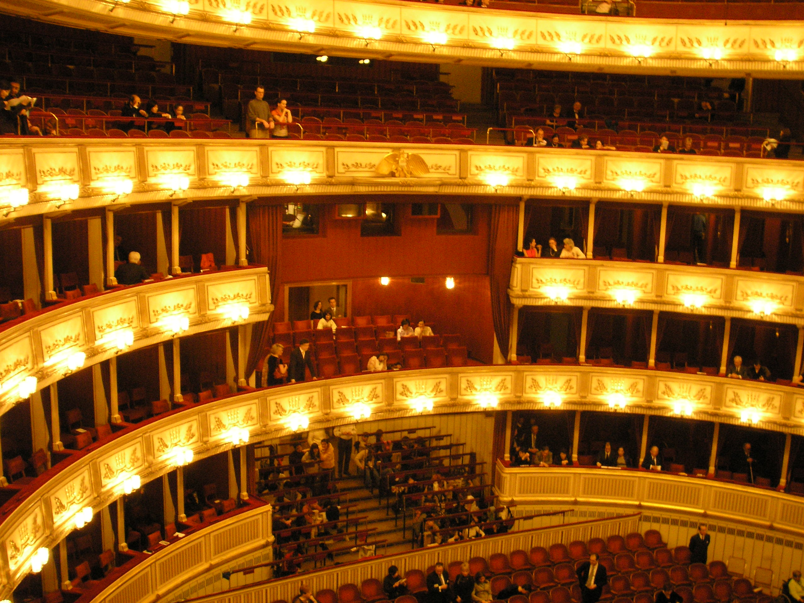 Description: View of the Imperial Box in the Vienna State Opera. Blick von den Rängen auf die Kaiserloge der Wiener Staatsoper. Source: Self-made, I release it into the public domain.